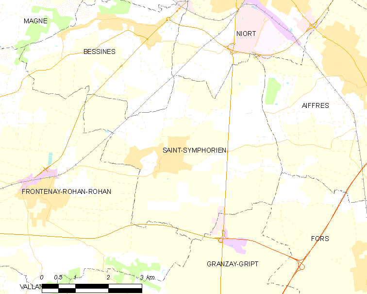 Map of French municipality Saint-Symphorien